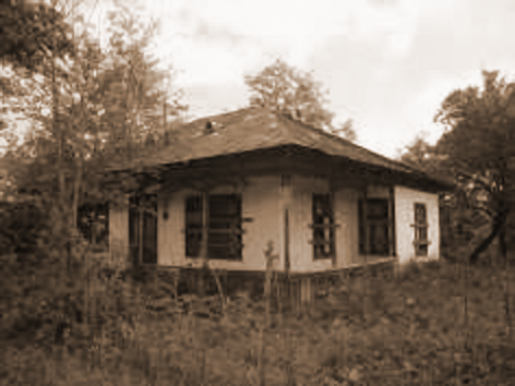 A house of a rich peasant from Bordei Verde commune, Brăila County, România, 1940.